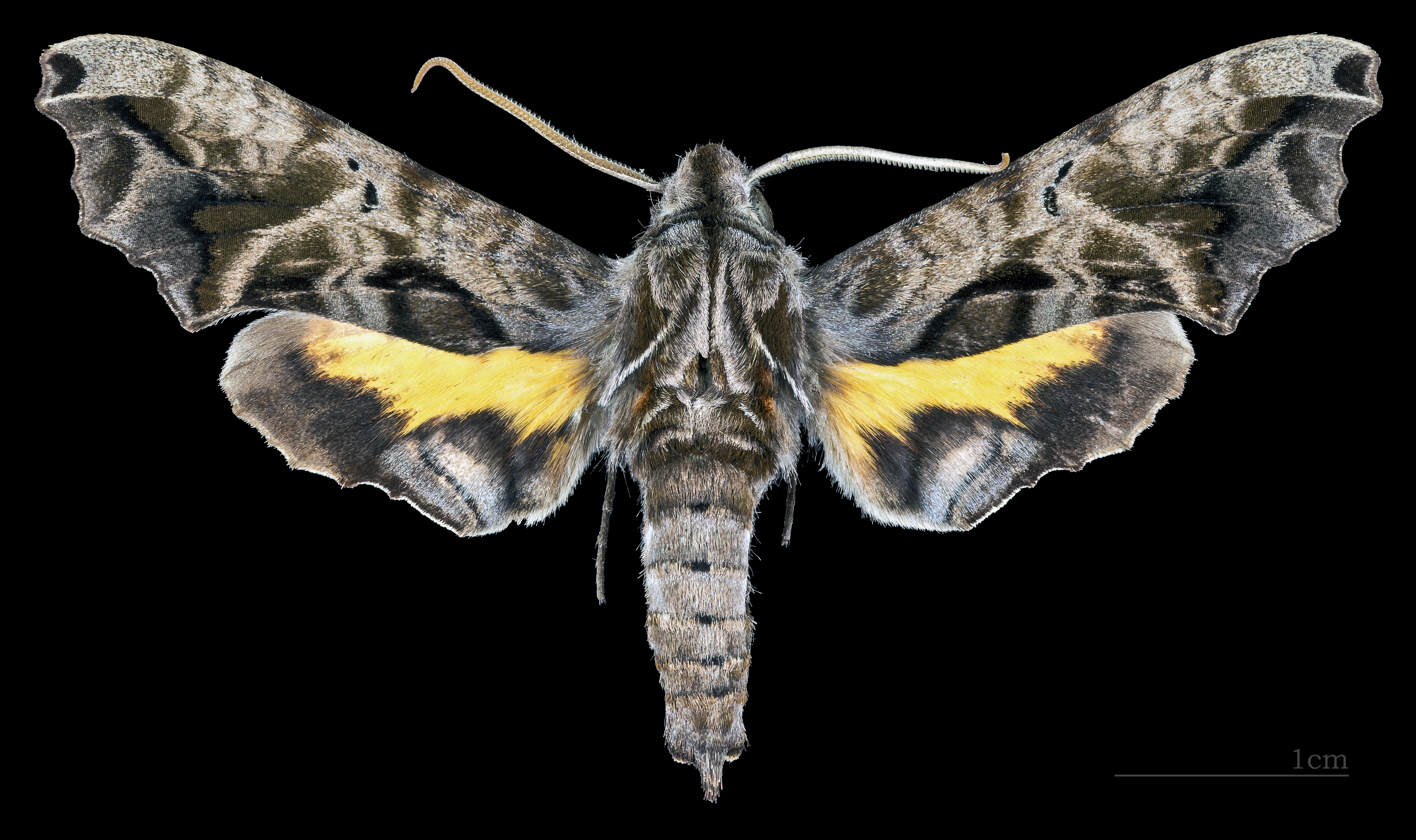 Nyceryx alophus - Dorsal side Collection of the Mathematician Laurent Schwartz